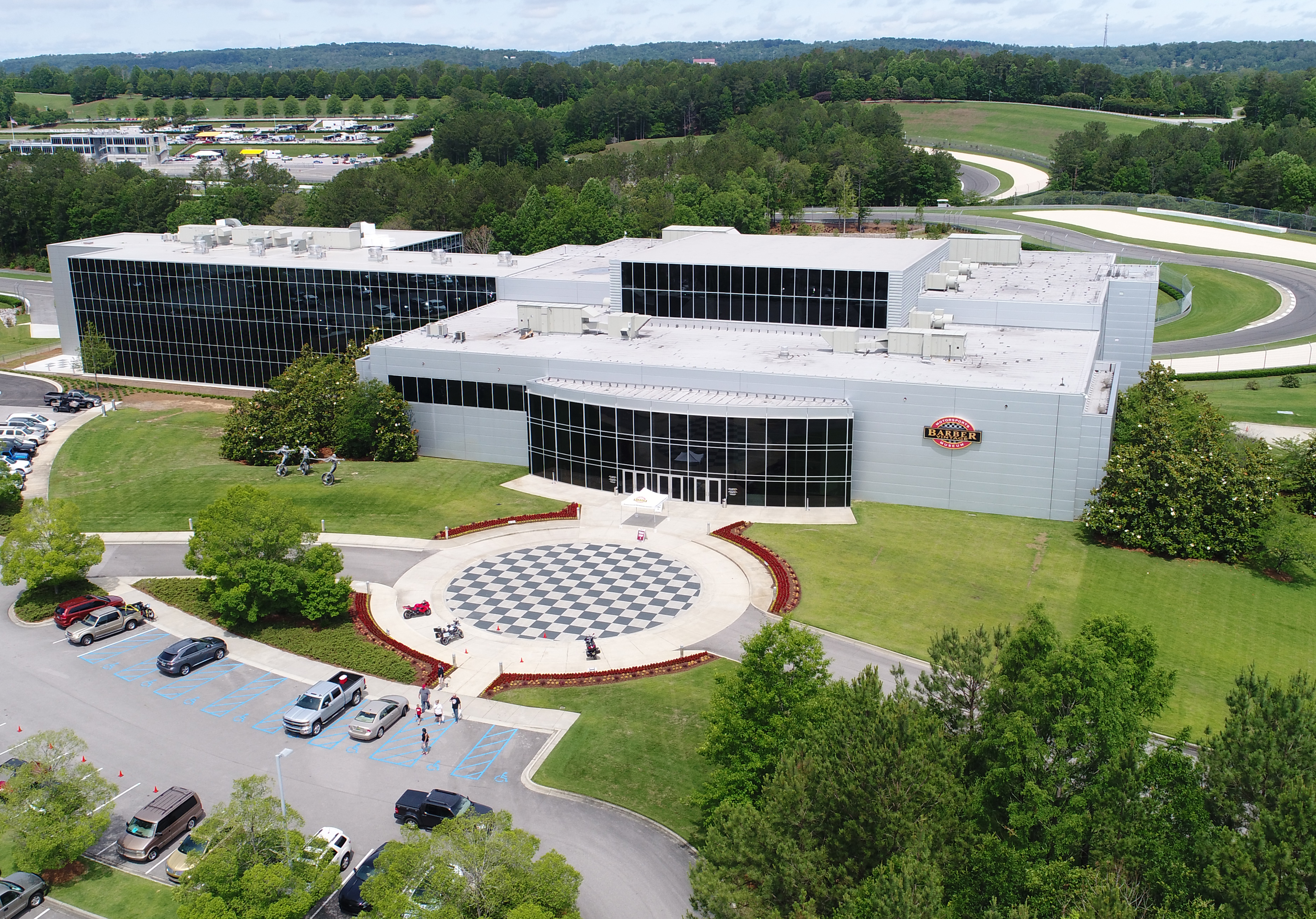 Located in the 880-acre Barber Motorsports Park, the Barber Vintage Motorsports Museum is 230,000 square feet and home to the world's largest collection of motorcycles - along with more than 80 rare and unique cars.